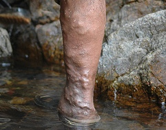 varices